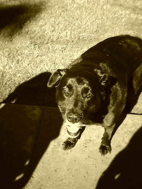 our dog casey, I created this image, I am the source, Mark Faraday, the url is